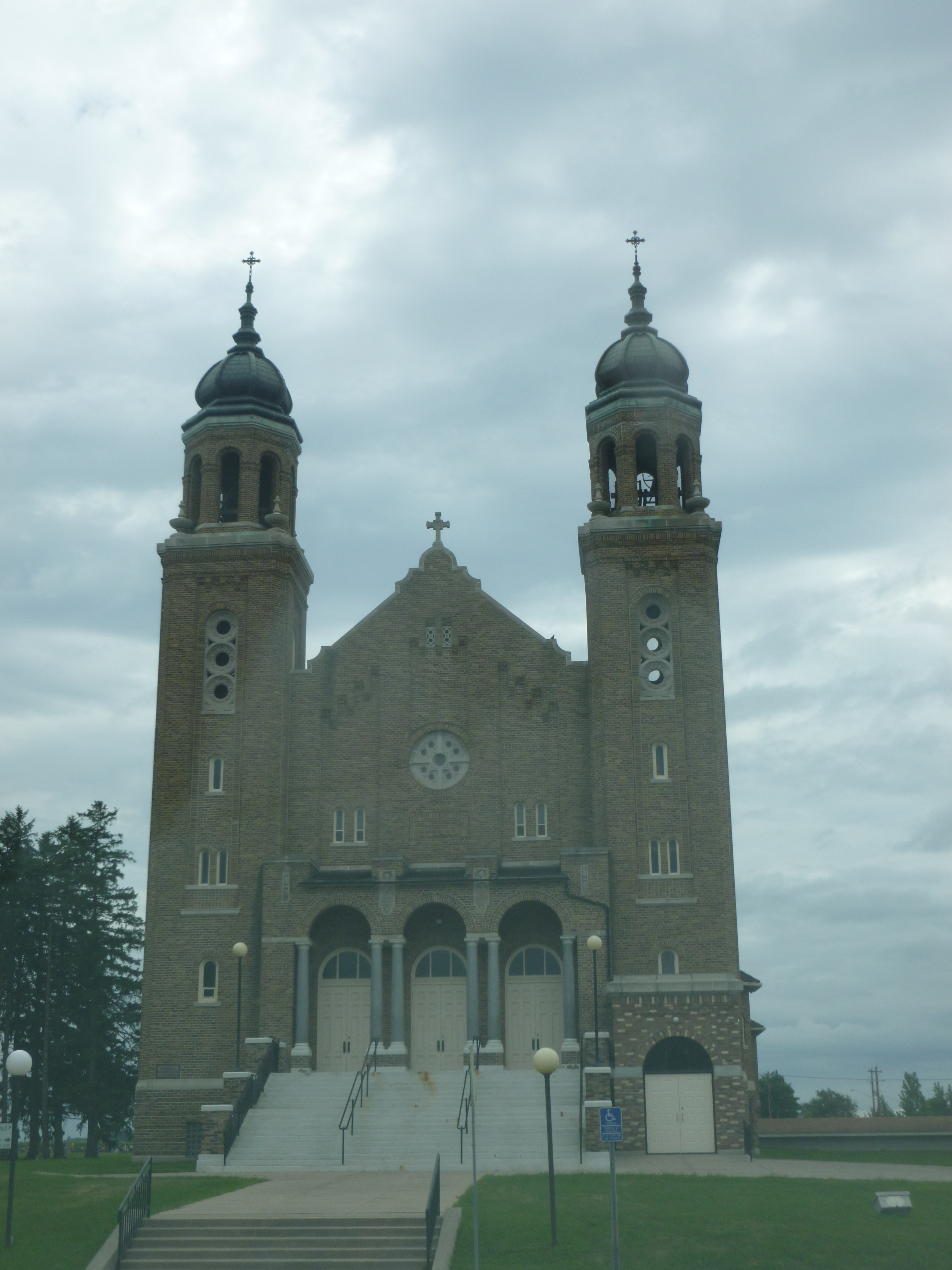 Sts. Peter and Paul Catholic Church, Gilman, MN